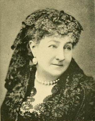 The spiritualist Duchesse De Pomar (Lady Caithness).